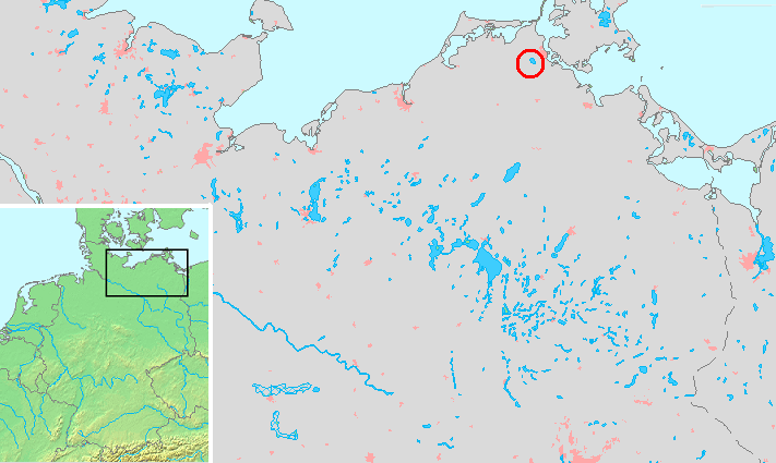 Locator maps of lakes in Germany : Location Borgwallsee.PNG